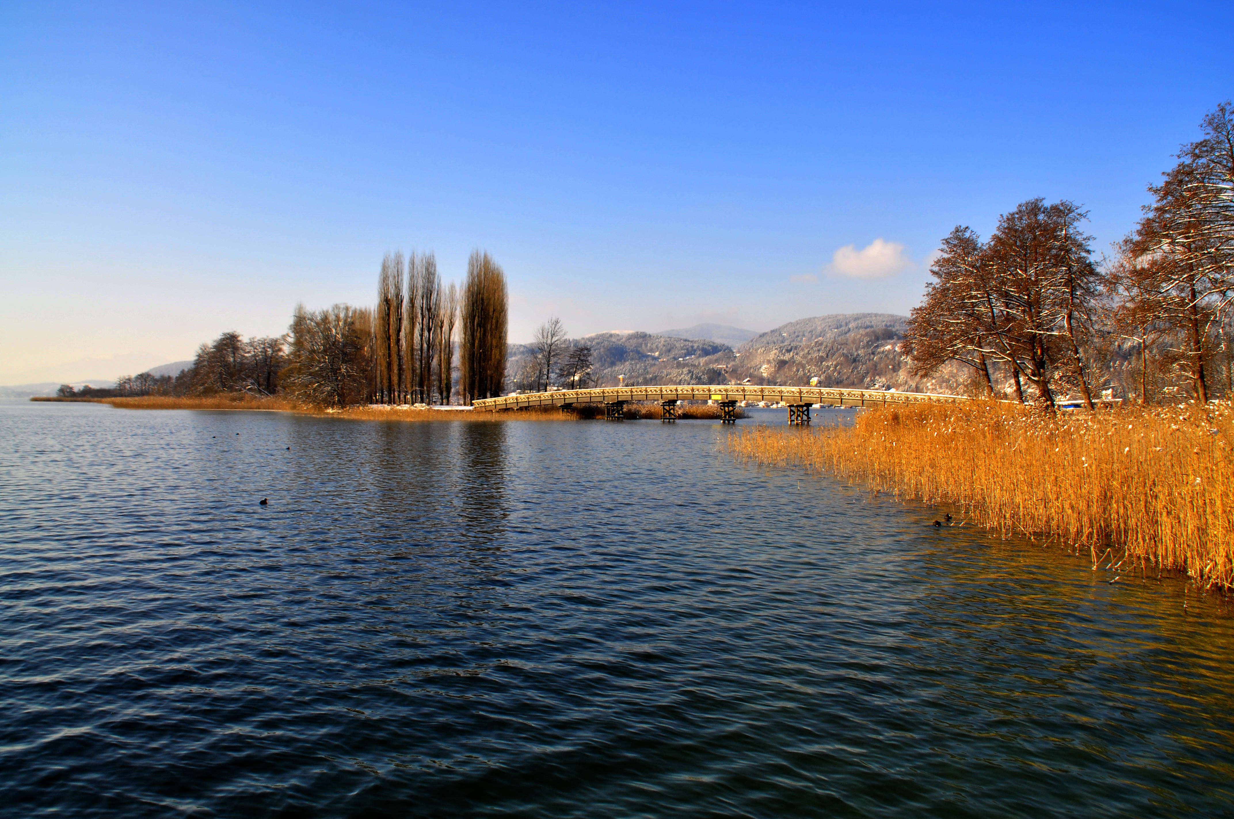 Bridge to the Blumeninsel ("Flower Island"), part of the lido, municipality Poertschach on the Lake Woerth, district Klagenfurt Land, Carinthia / Austria / EU